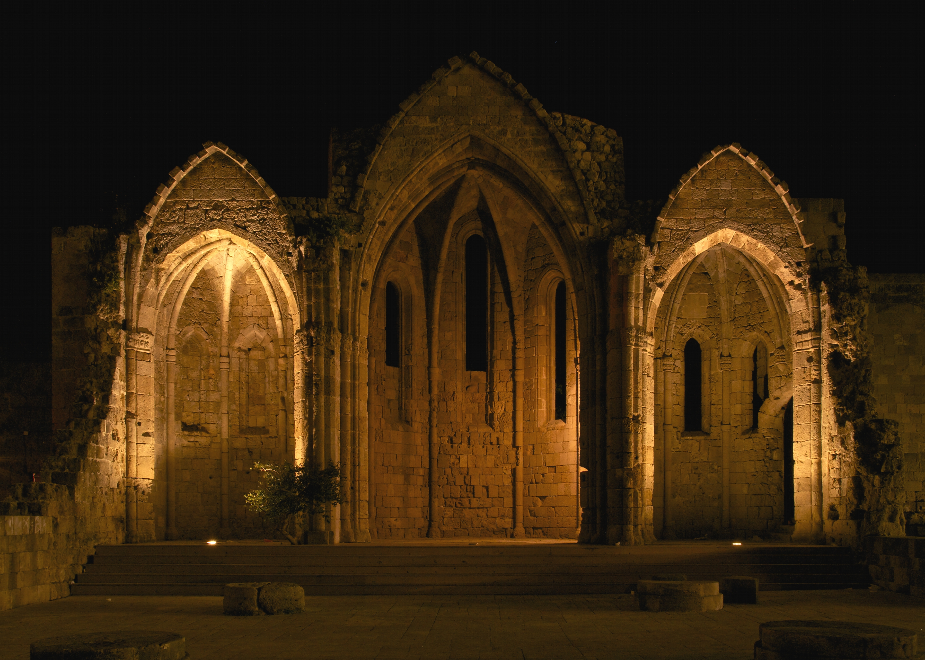 By night, the ruins of the choir of the church of the Virgin of the Burgh in the medieval city of Rhodes, Island of Rhodes, Greece. 14th century.